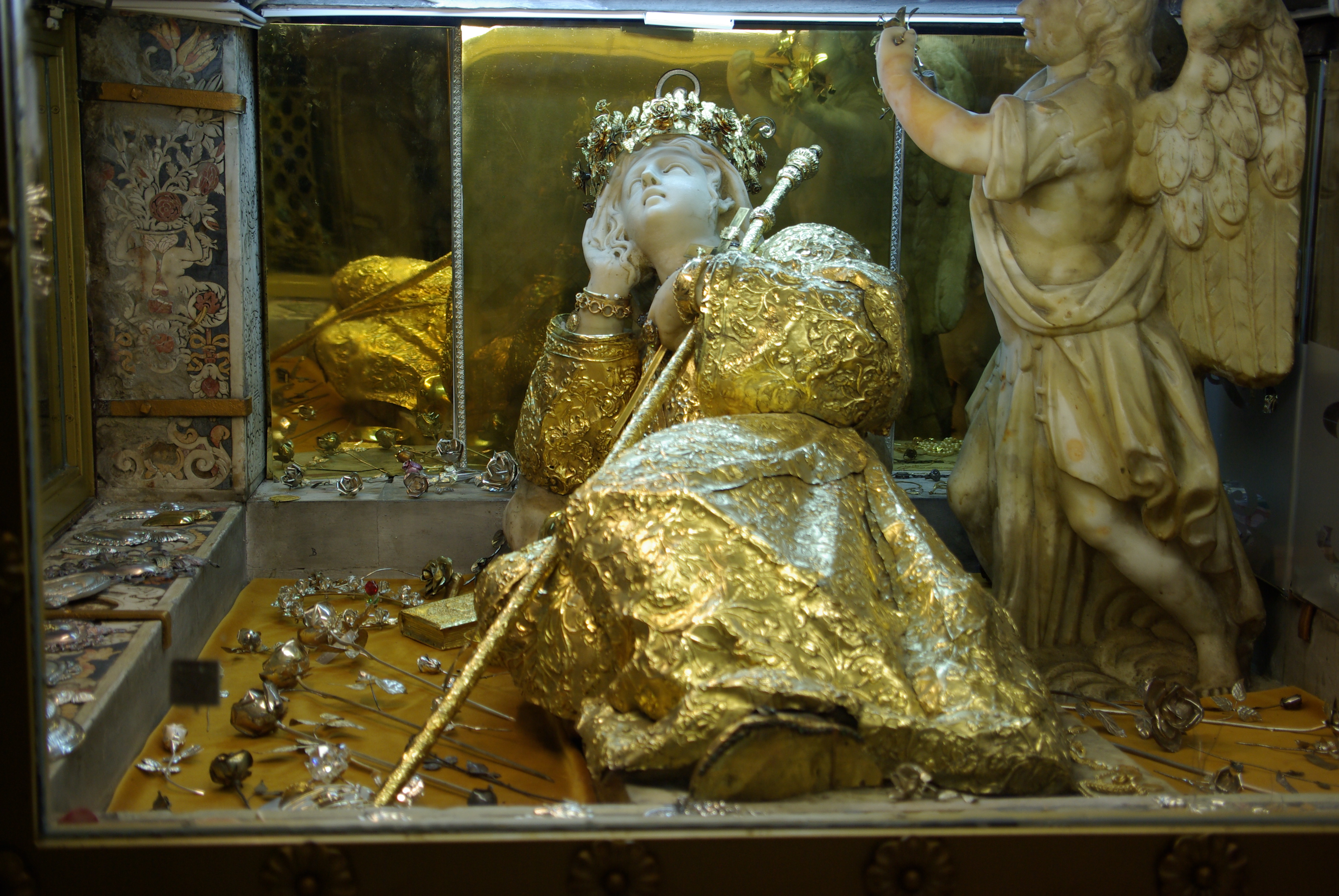 Italy, Sicily, Palermo, Monte Pellegrino; By Gregorio Tedeschi (sculptor), 1625